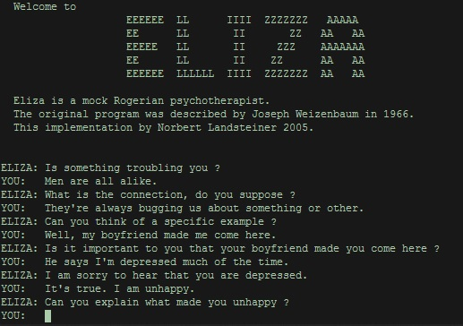 A conversation with the ELIZA chatbot.